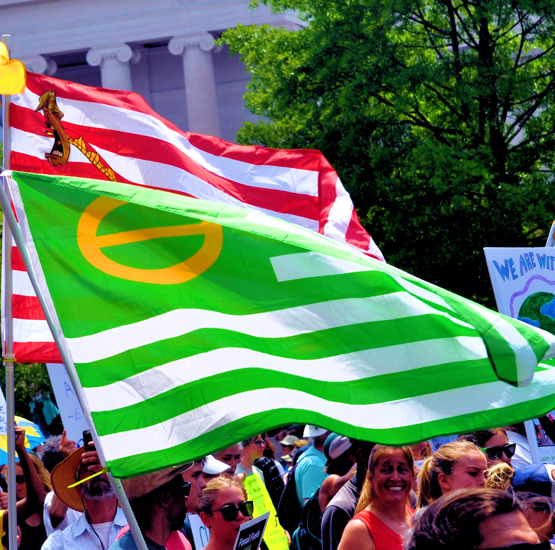 Climate March 0332 - Ecology flag in front of protest flag.